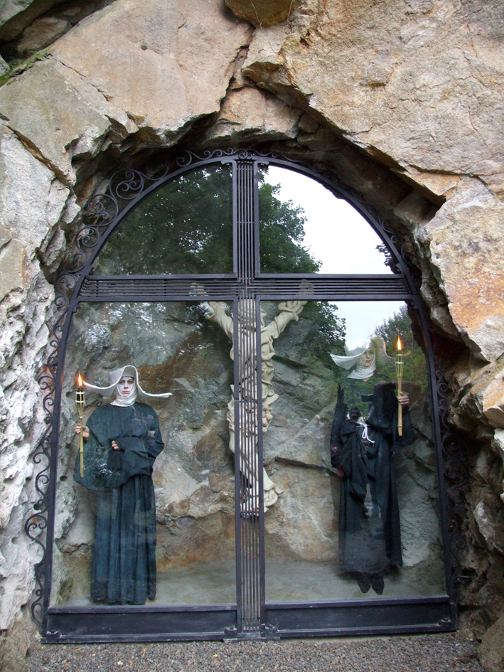 Lubo Kristek: Vysvobození z útrap, keramika